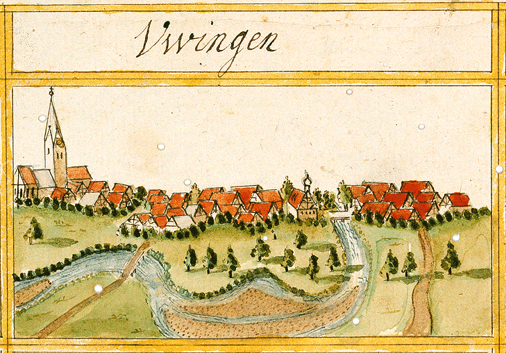 View of Uhingen from the forest register books created by Andreas Kieser